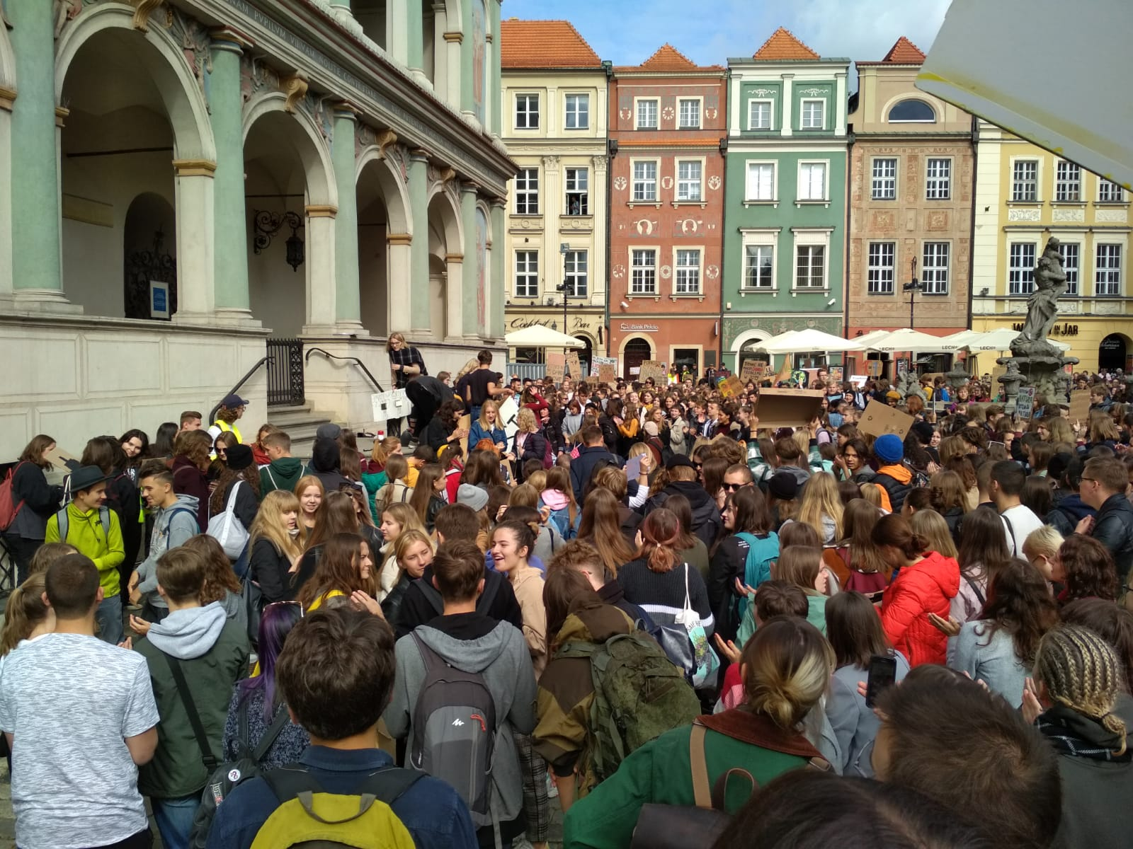 Fridays for Future Młodzieżowy strajk klimatyczny Poznań